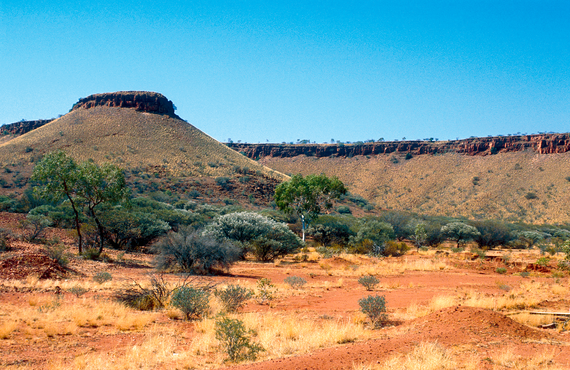 Rocky outcrops near Barrow Creek, NT. 1992.